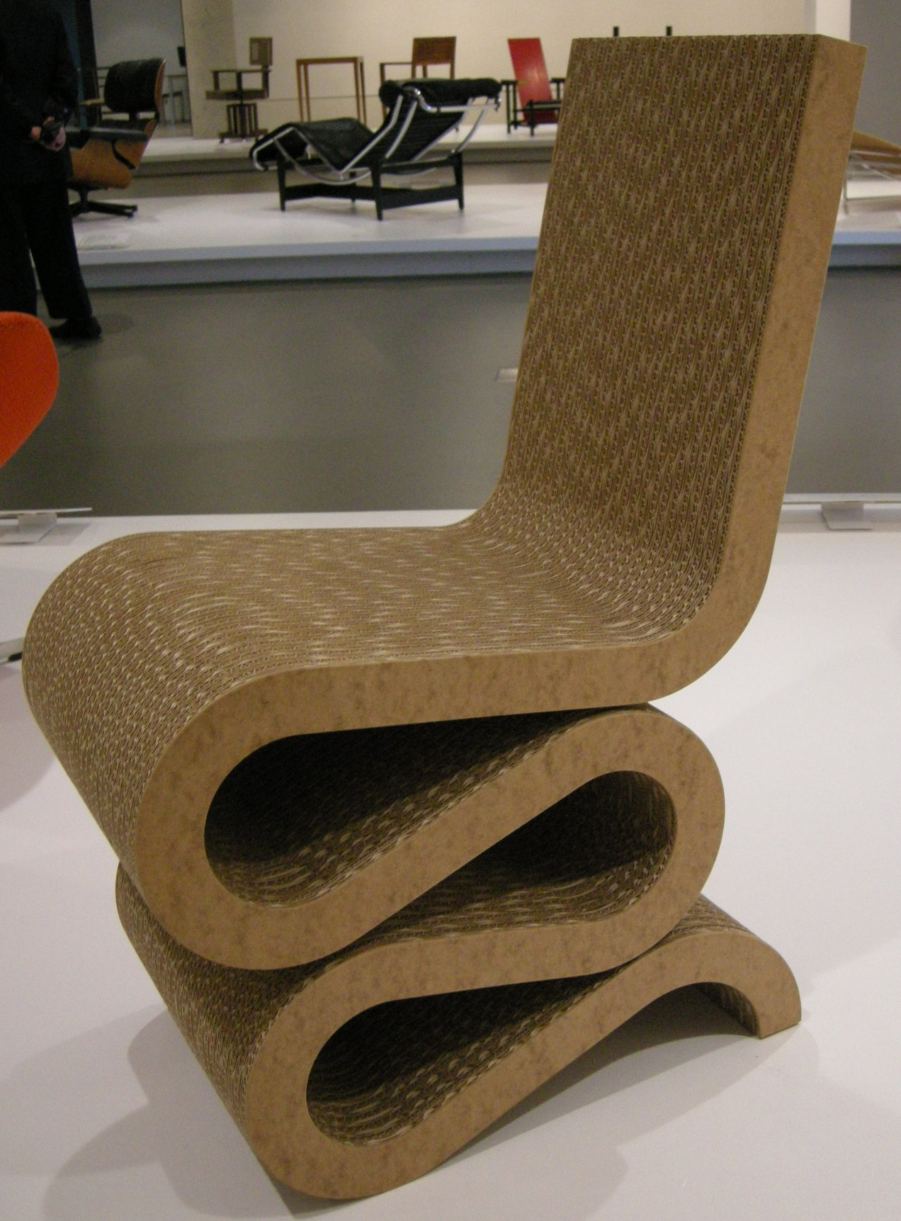 wiggle side chair designed by Frank o. Gehry